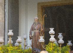 fiesta san anton